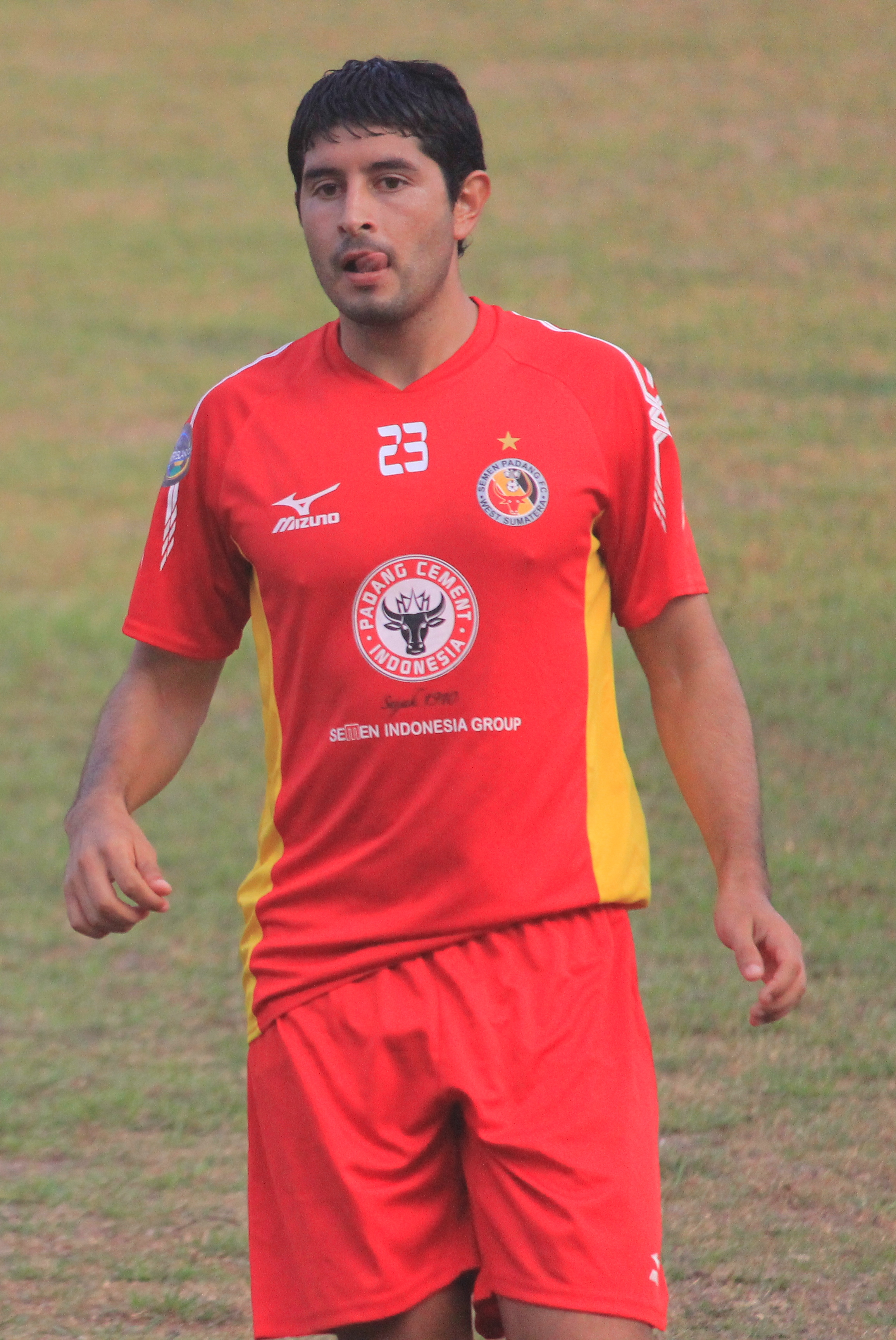 Esteban Vizcarra playing for Semen Padang against PSPS Pekanbaru, 25 January 2014 in Pekanbaru.